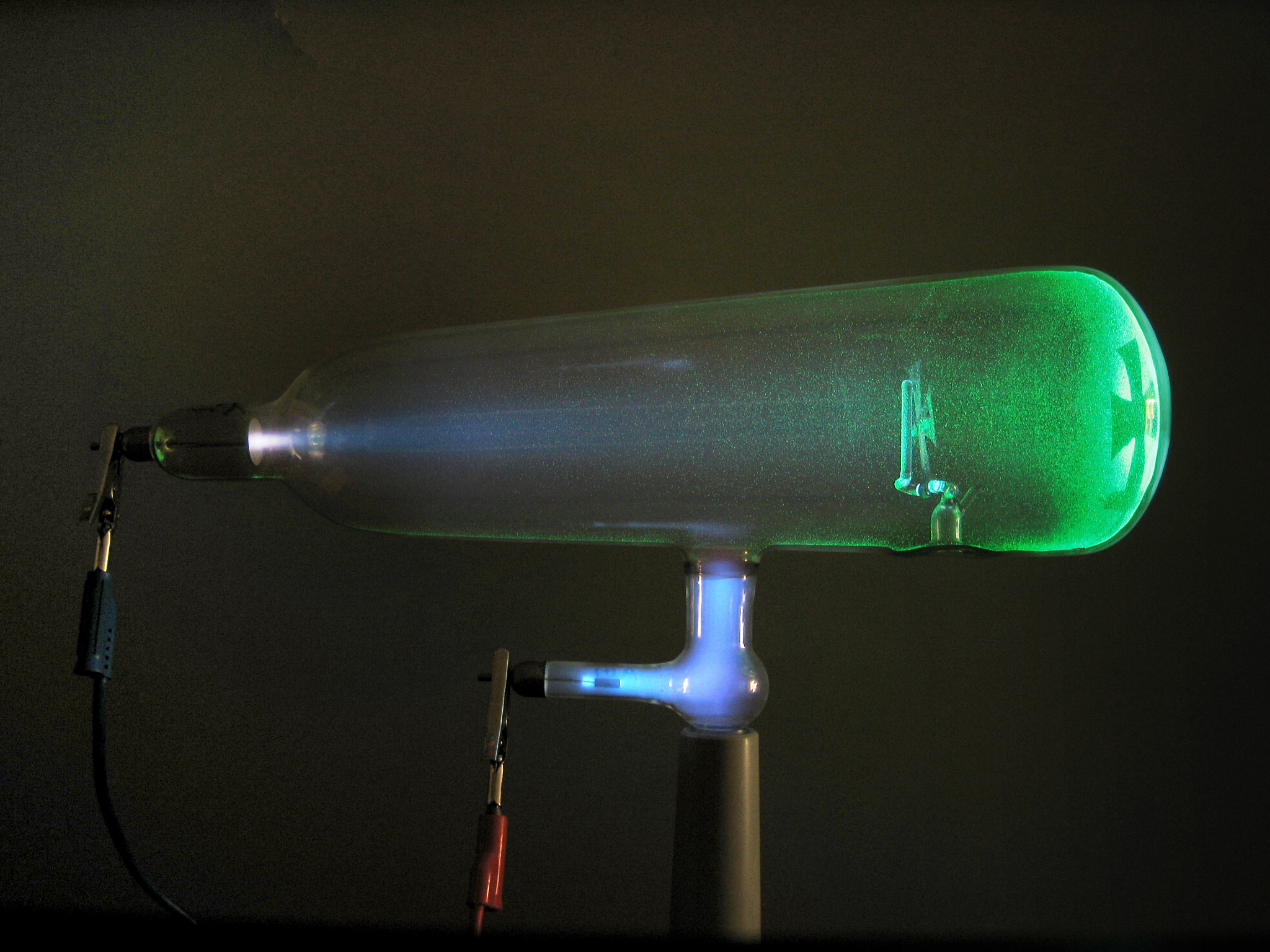 Lateral view of a sort of a Crookes tube described in the german Wikipedia with a standing cross (in use)